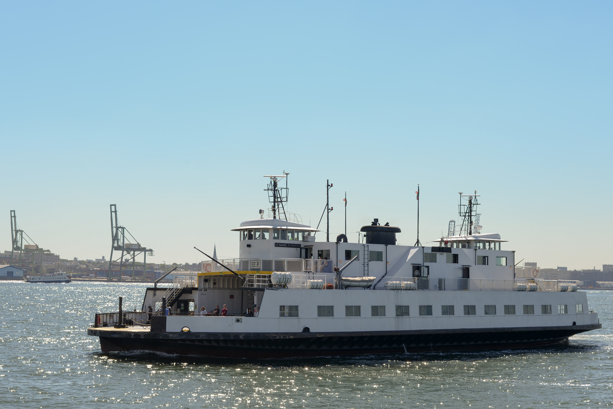 Built in 1956 she provides ferry service to Governors Island.